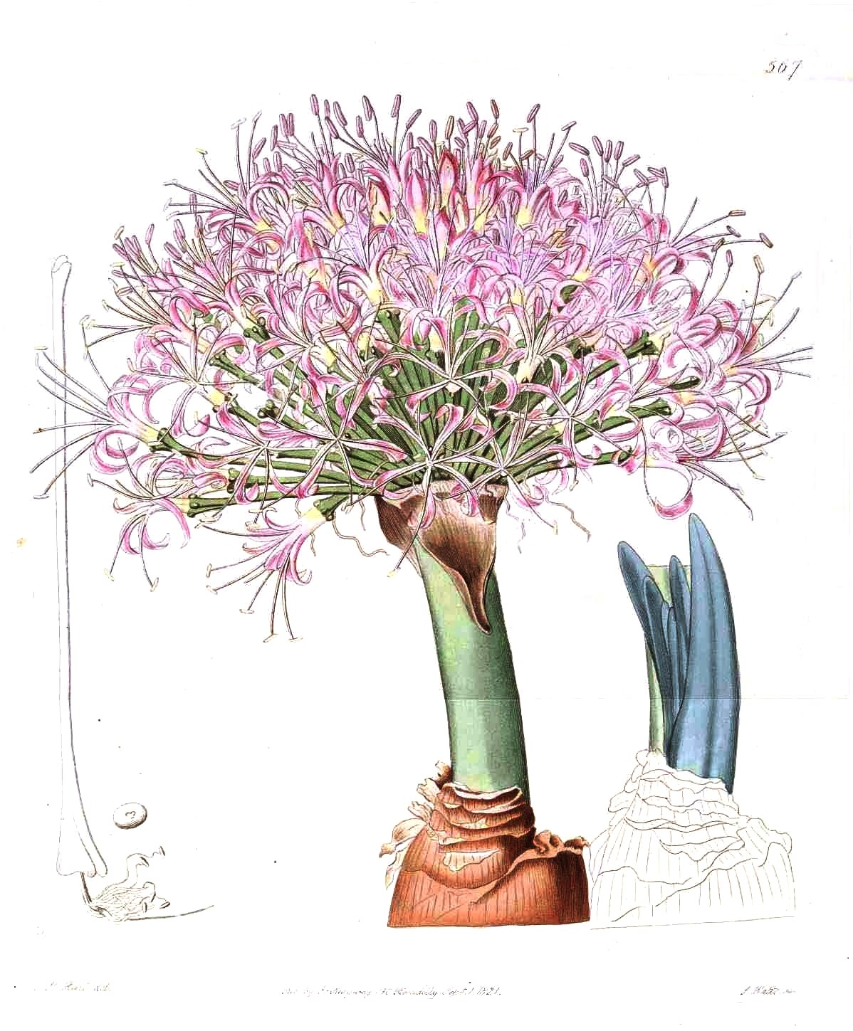 Boophone disticha